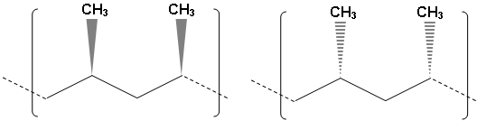 Meso diad for tacticity article.